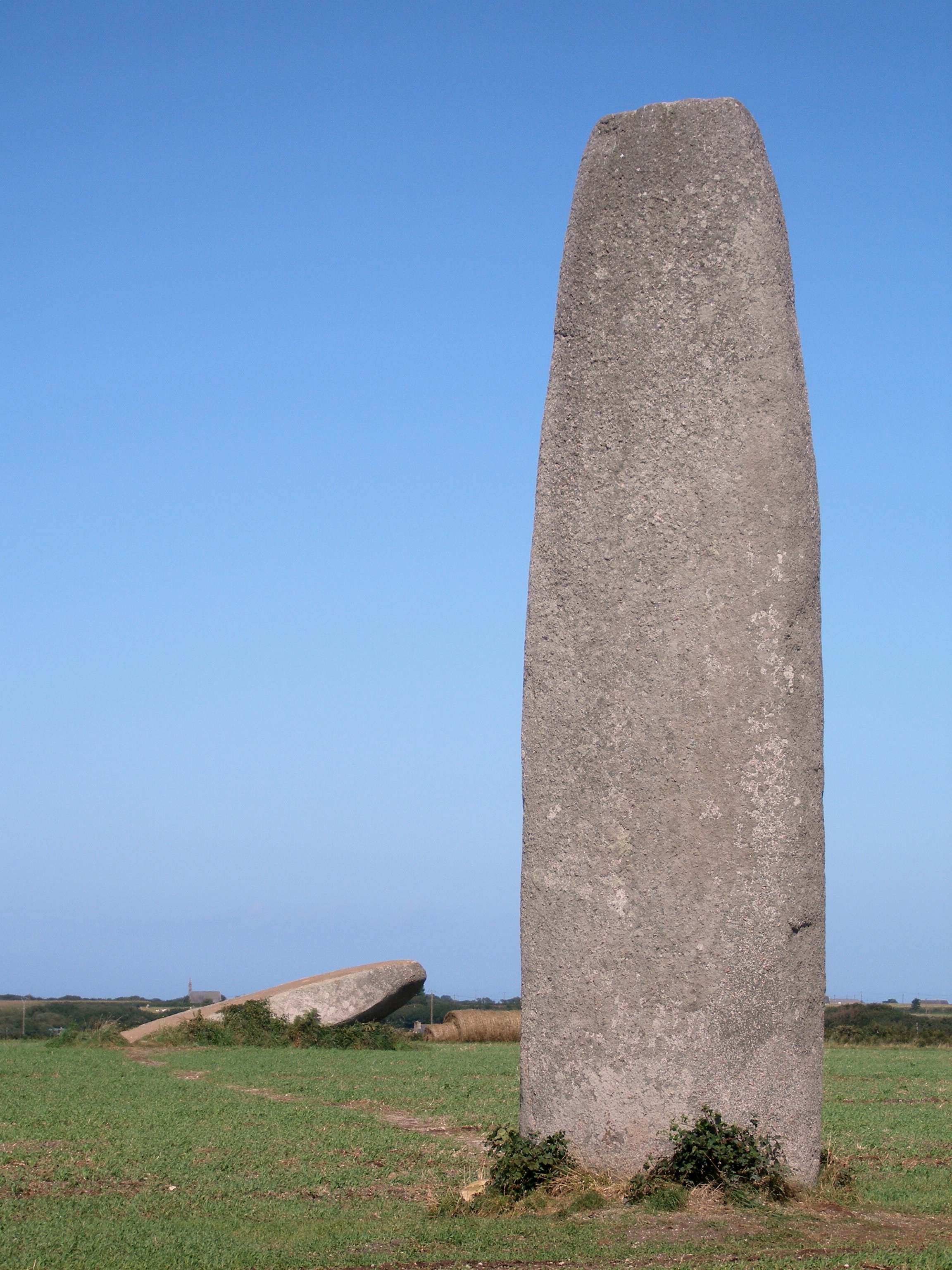 The Kergadiou menhirs, near Plourin-Ploudalmezeau in Brittany, France. The standing menhir is 9 meters high; the other one measures 11 meters.